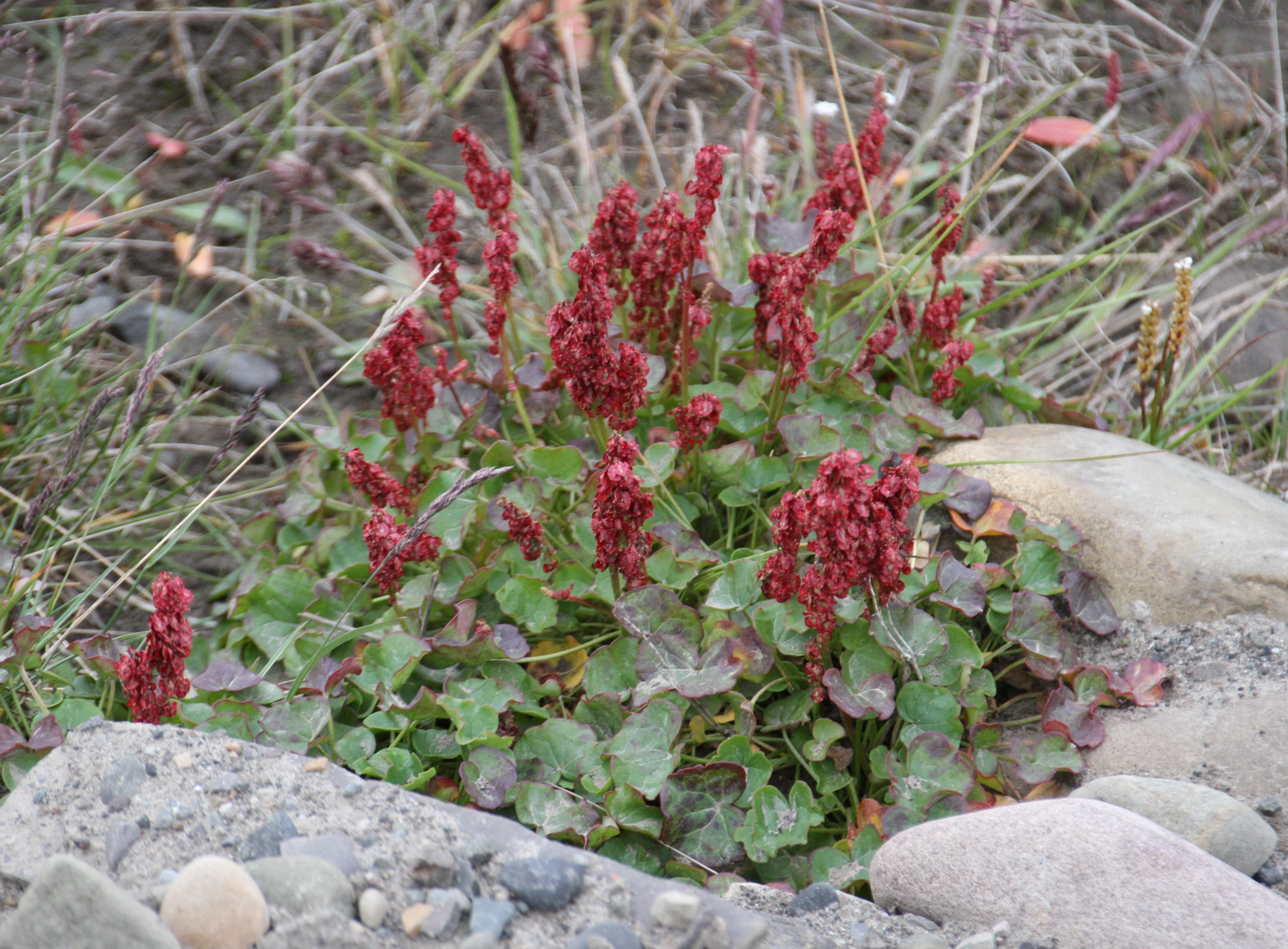 Photo of plant nearby Longyearbyen, Spitsbergen (Norway)